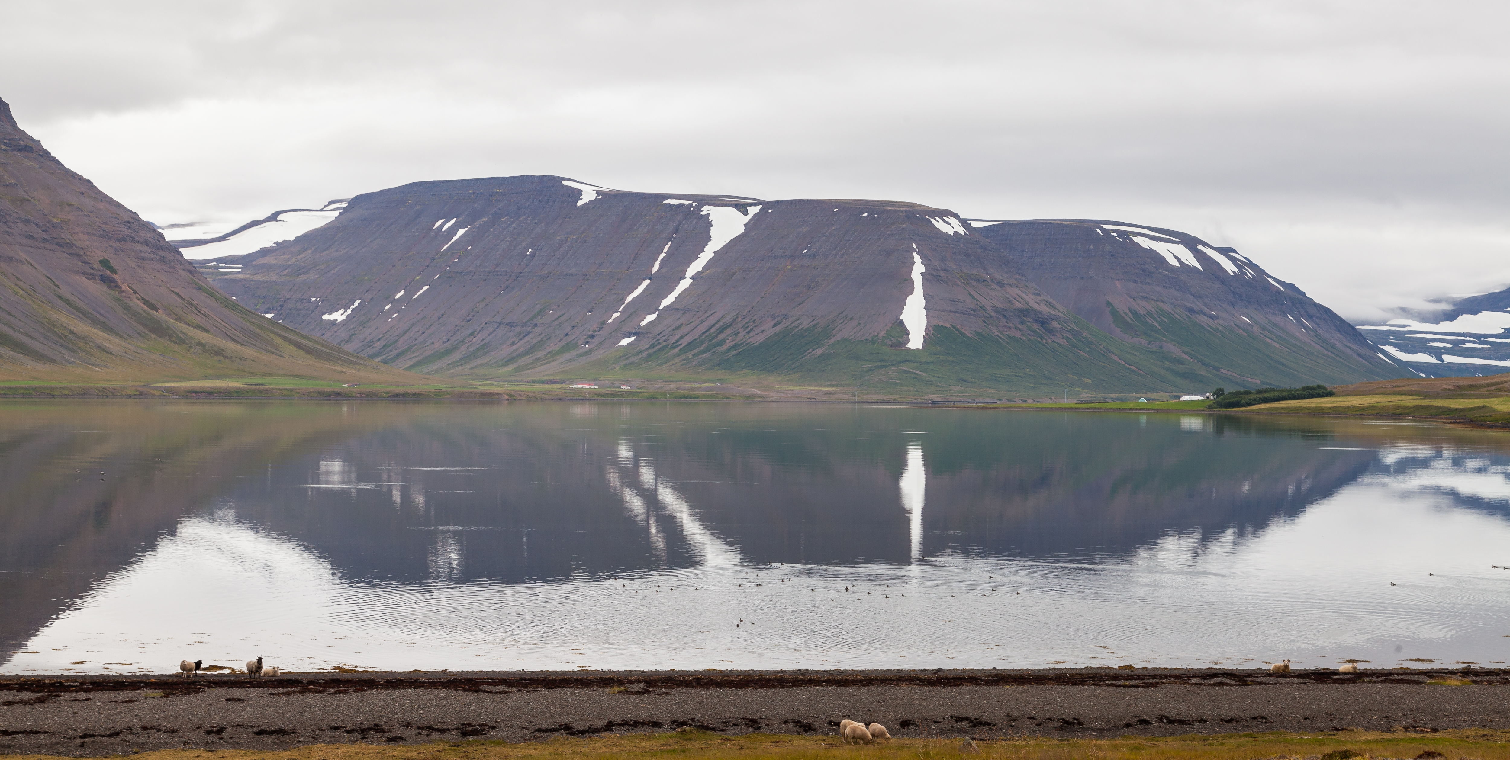 Dýrafjörður, Vestfirðir, Iceland